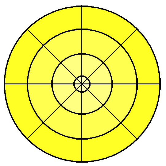 Circles with differing radii but the same center are concentric